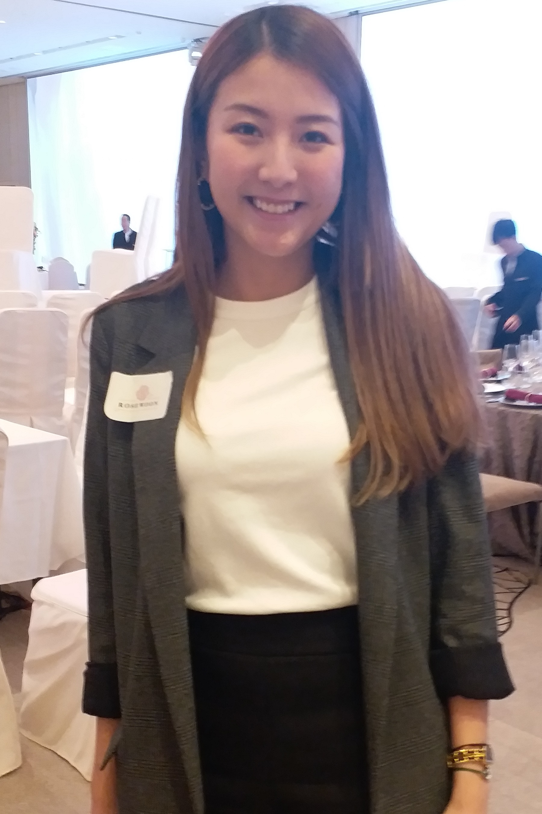 Rose Chan